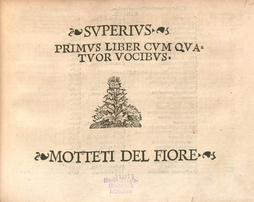 Title page of Jacques Moderne, "Motetti del Fiore".